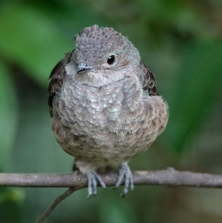 Cotinga cayana - Spangled Cotinga, female